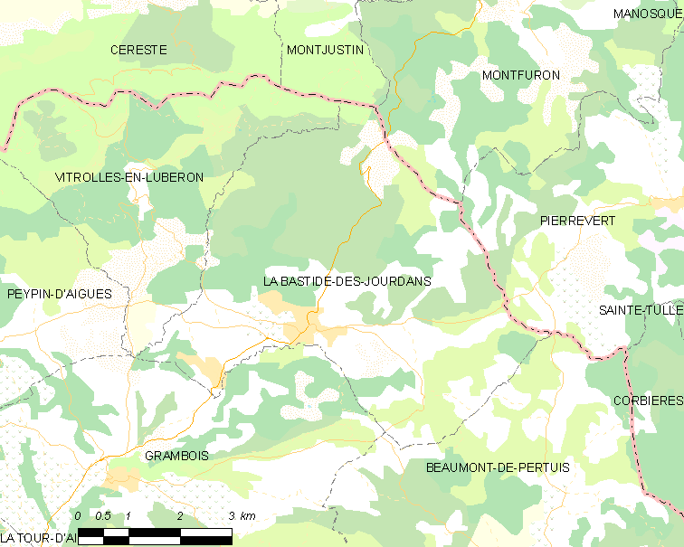 Map of French municipality La Bastide-des-Jourdans